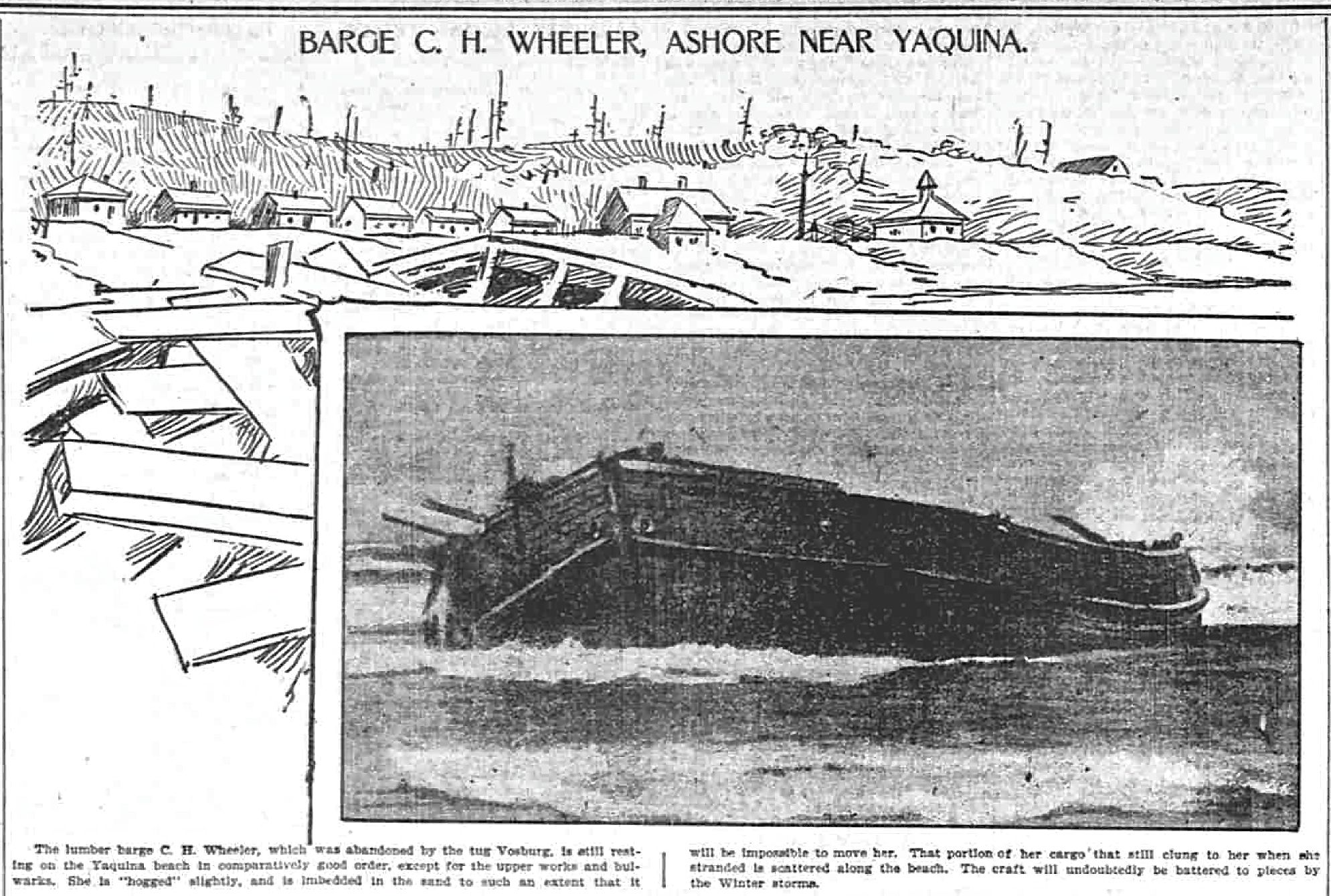 Newspaper-published photograph and drawing of wreck of sailing barge